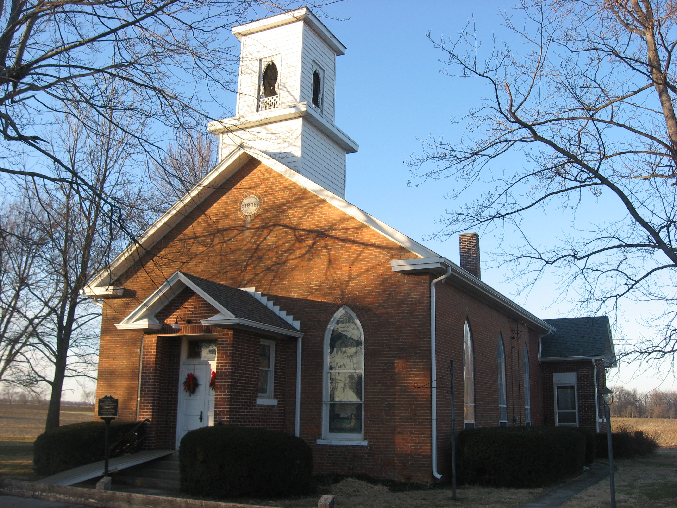 Front and eastern side of the former Richwood Evangelical Lutheran Church, located at 9700 W700S at Cross Roads in Salem Township, Delaware County, Indiana, United States. Built in 1868, it is listed on the National Register of Historic Places.